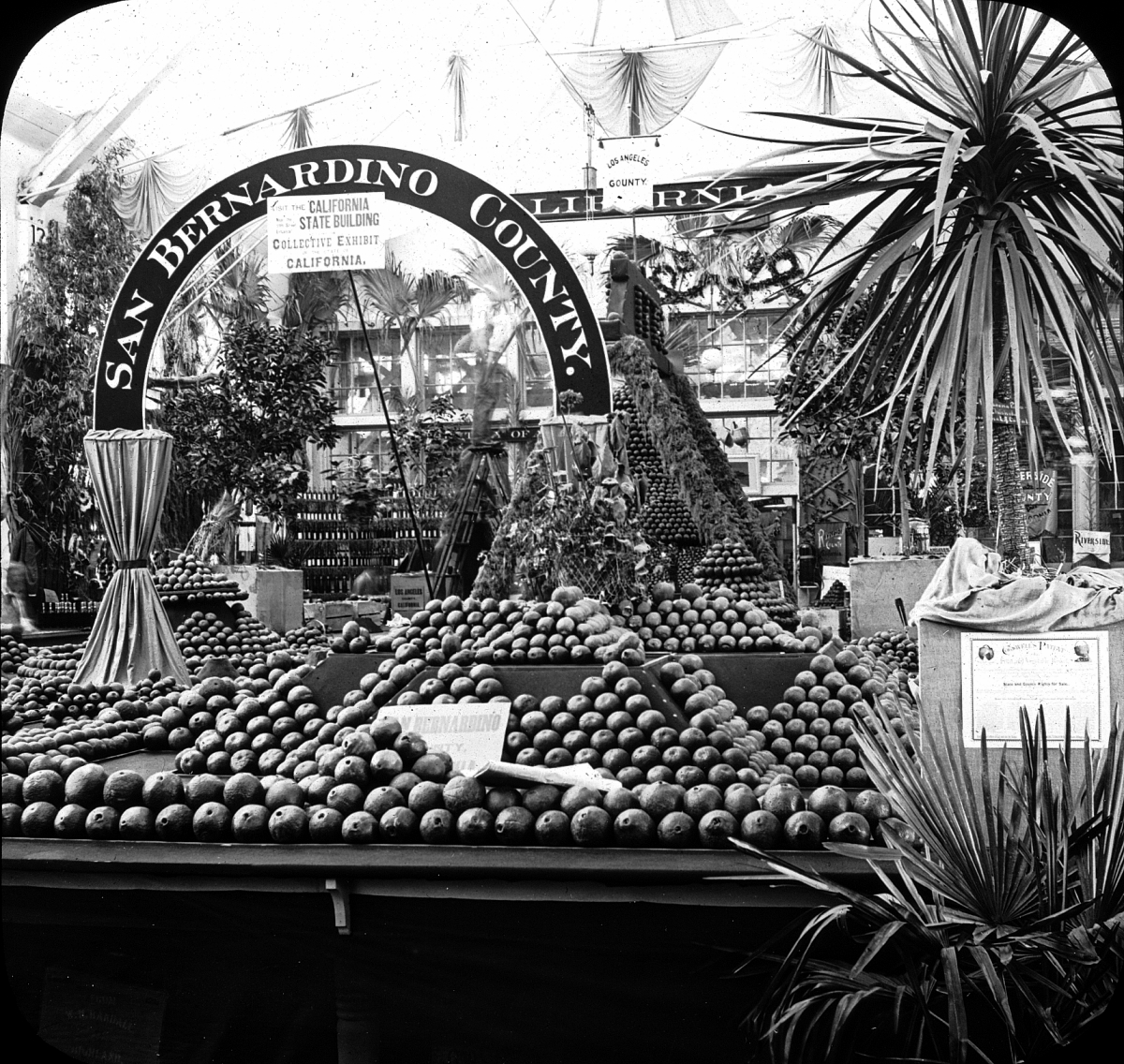 World's Columbian Exposition: Horticultural Building, Chicago, United States, 1893. Interior Horticultural Building, [with view of San Bernardino County display,] Sept.; Starks W. Lewis, Amateur, Brooklyn, N.Y. Brooklyn Museum Archives, Goodyear Archival Collection (S03_06_01_016 image 2210).